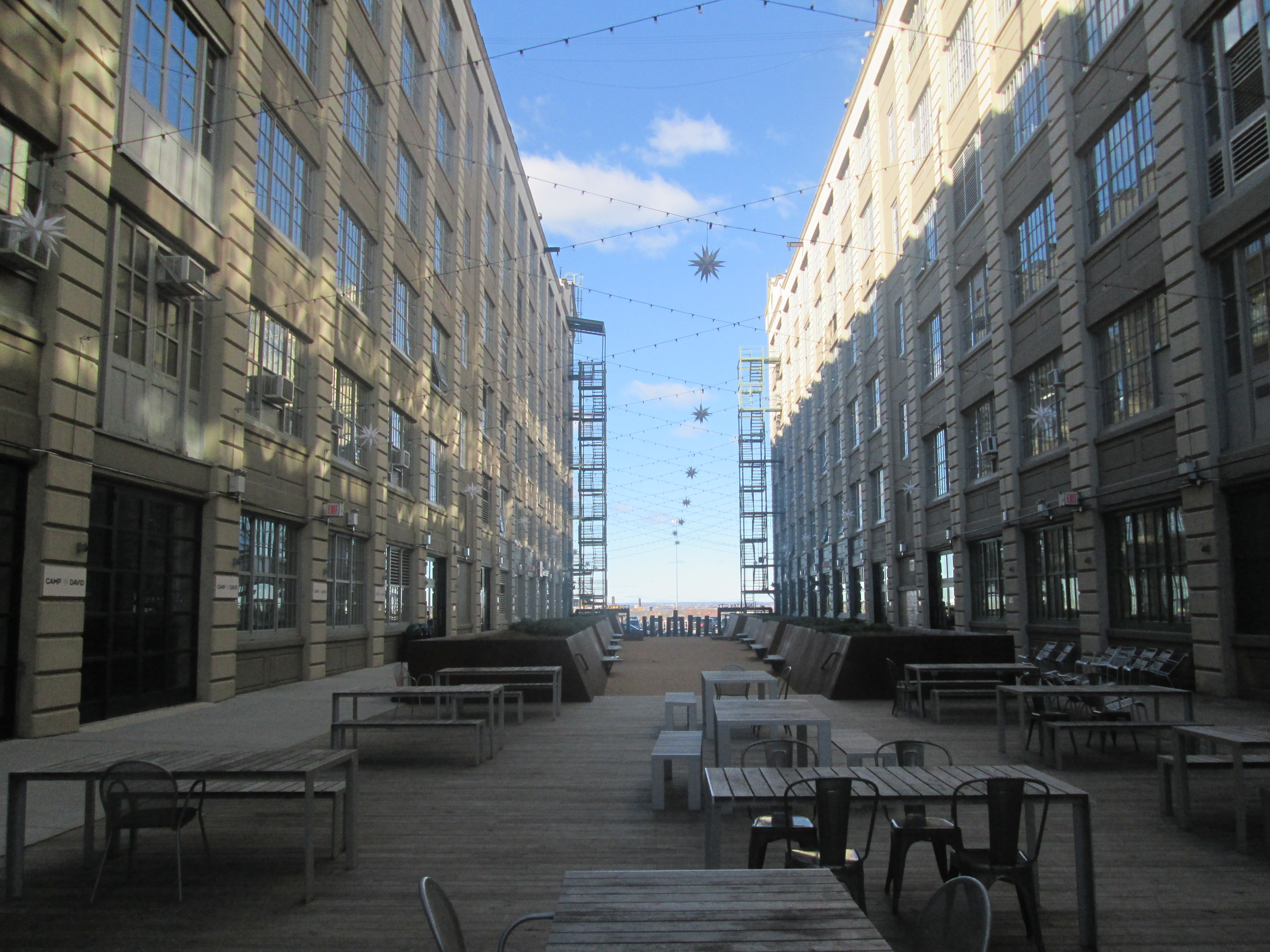 Industry City in Brooklyn, New York, seen on December 4, 2018